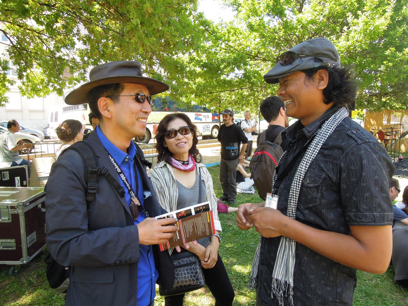 Gwacheon Street Art Festival, Art Director Yim Su-taek (left) and Khuon Det, Founder and Art Director of the Phare Ponleu Selpak (Art- and Circusschool in Battambang (Kambodia)